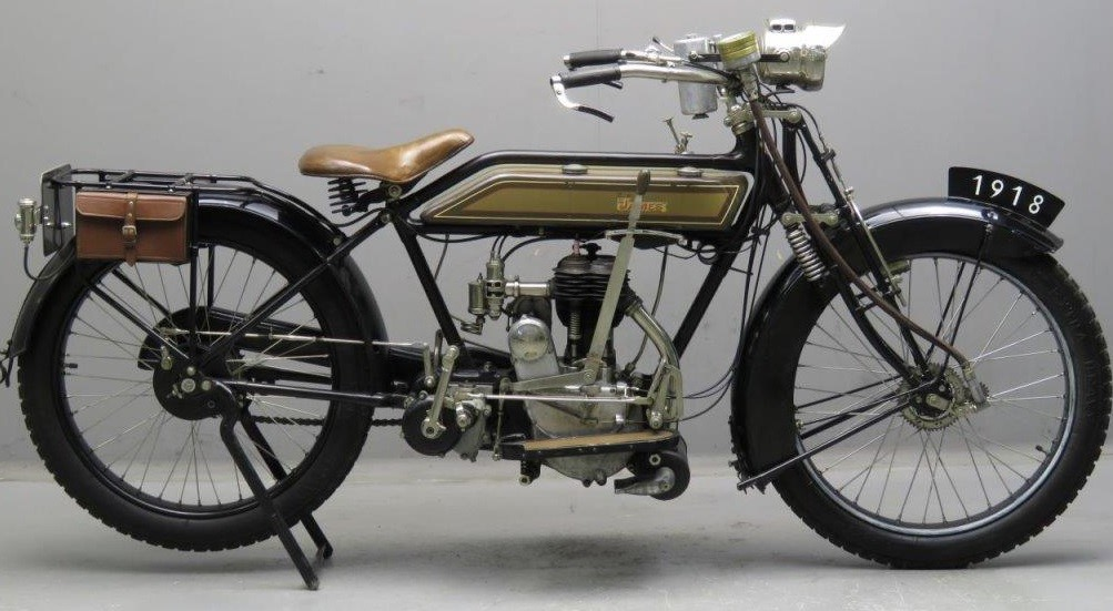 1918 James Model 6 4½ HP 600cc side valve motorcycle, right side